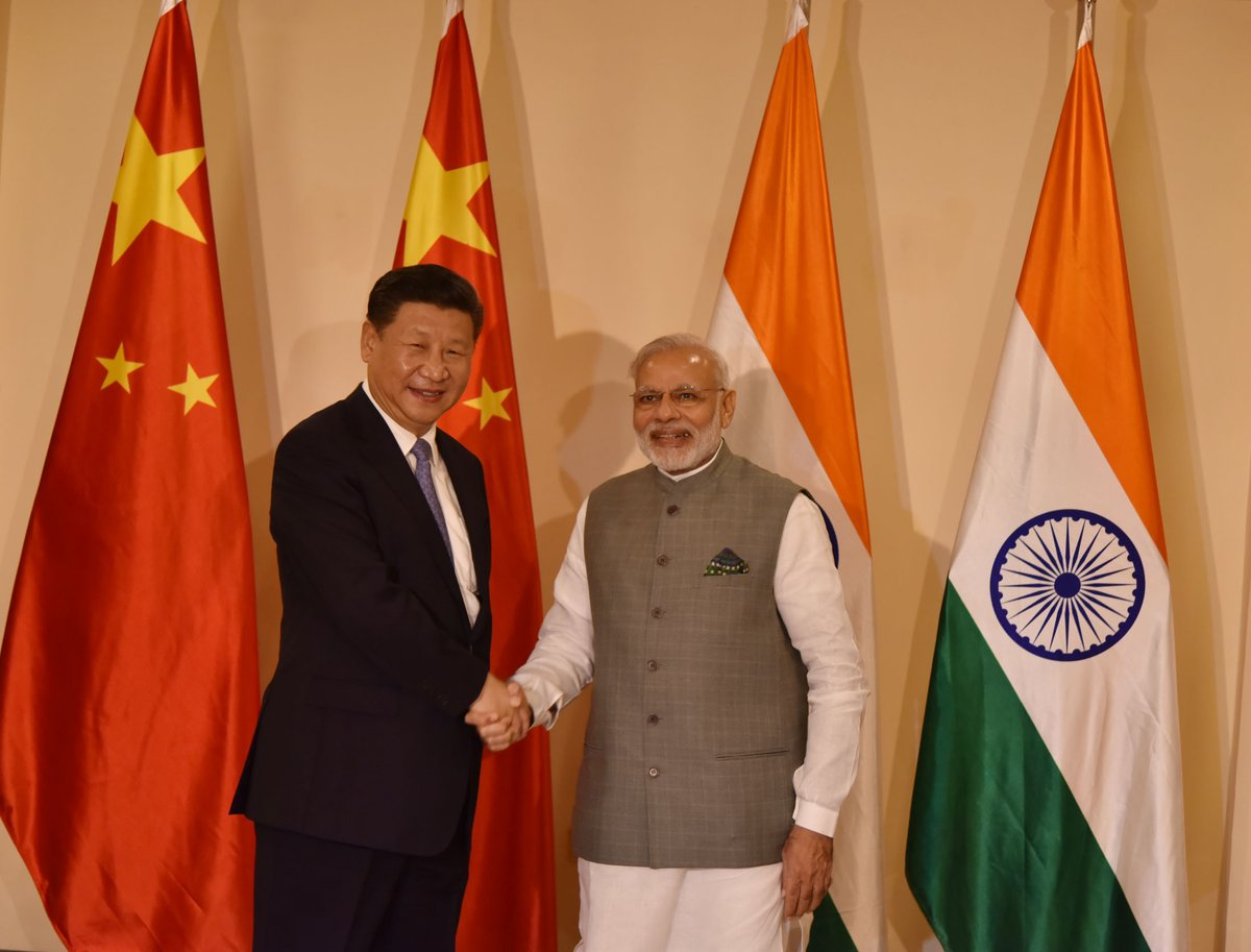 My meeting with President Xi Jinping was fruitful. We discussed various aspects of India-China ties.